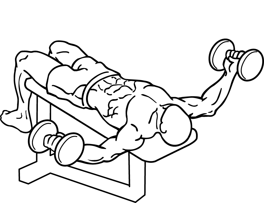 an exercise of chest